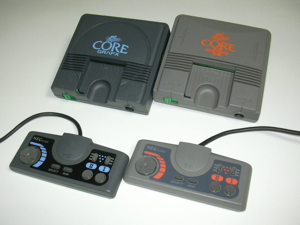 PC Engine Core Grafx (PI-TG3) & PC Engine Core Grafx (PI-TG7) with controller (PI-PD6).